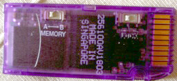 256mb Lexar Memory Stick Select